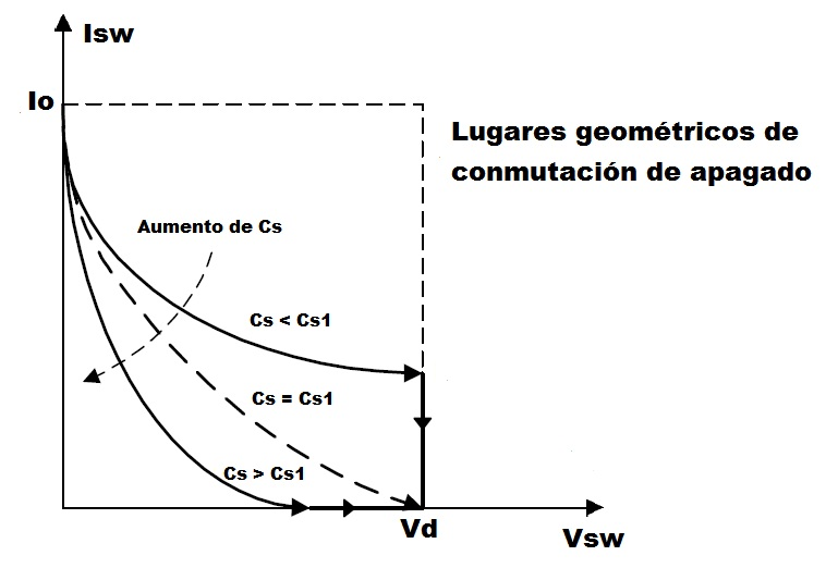 Apagado